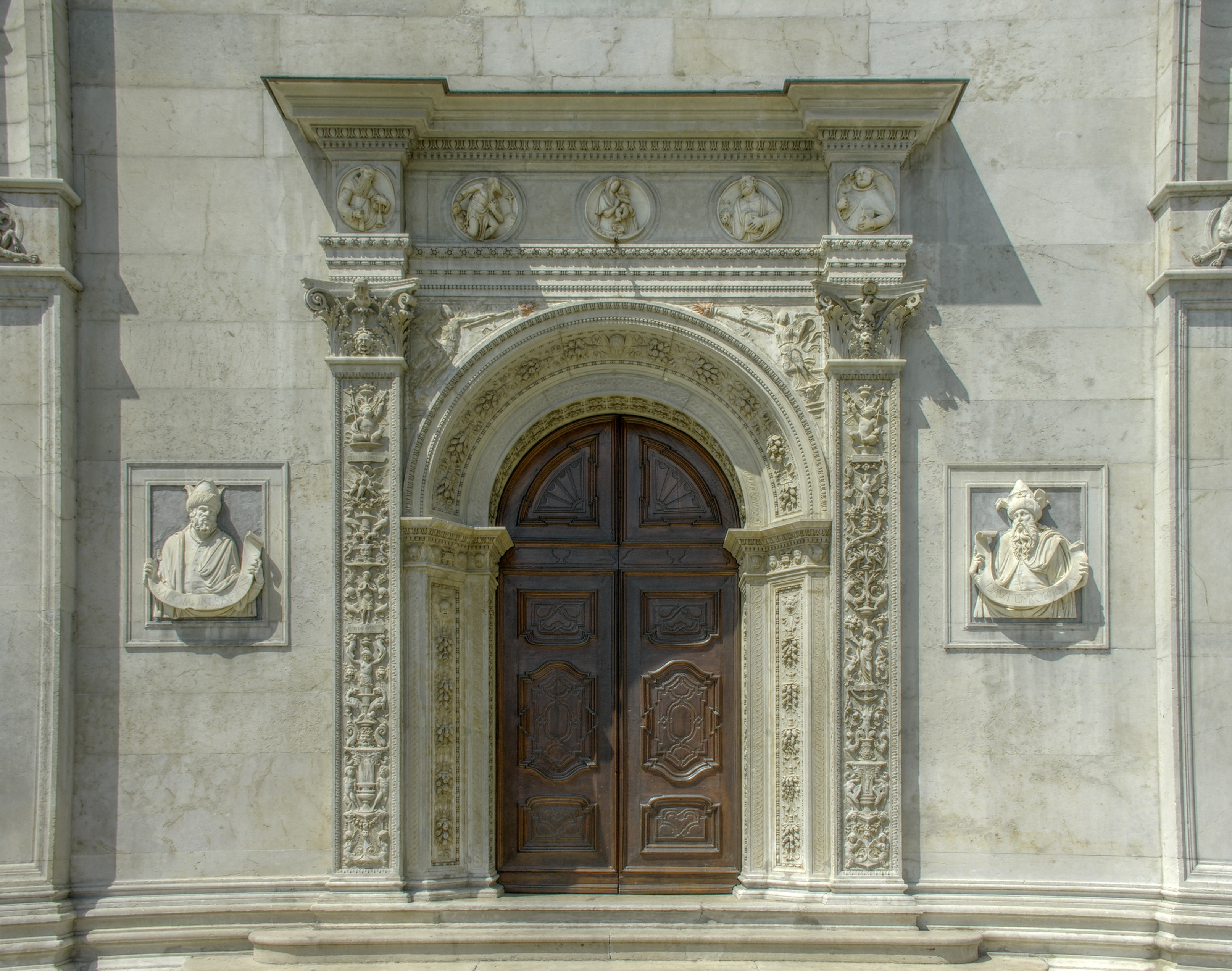 Lugano, Tessin, Switzerland, San Lorenzo cathedral - The portal